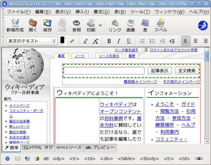 Japanese language version of SeaMonkey Composer